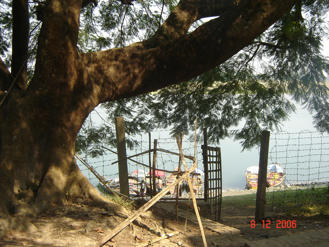 Boats by the side of the Old Brahmaputra river in BAU campus